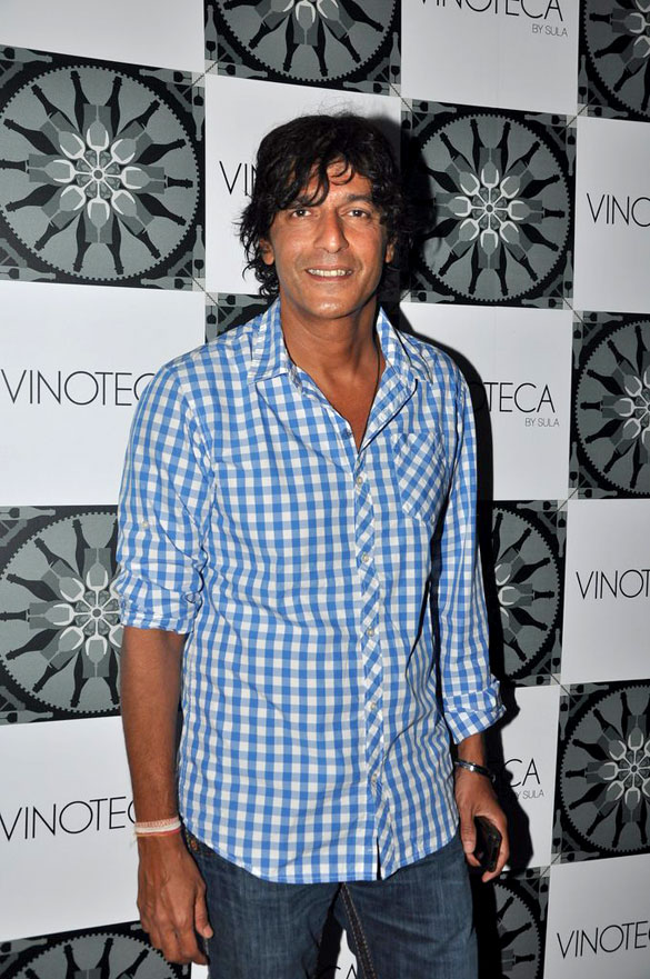 Forest success party